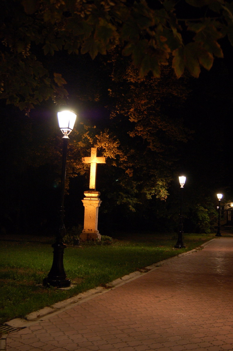 One of two marble crosses in the yard of Uspenska church.